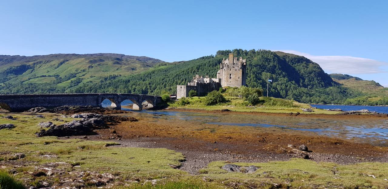 Eilean Donan in Scottish Highlands